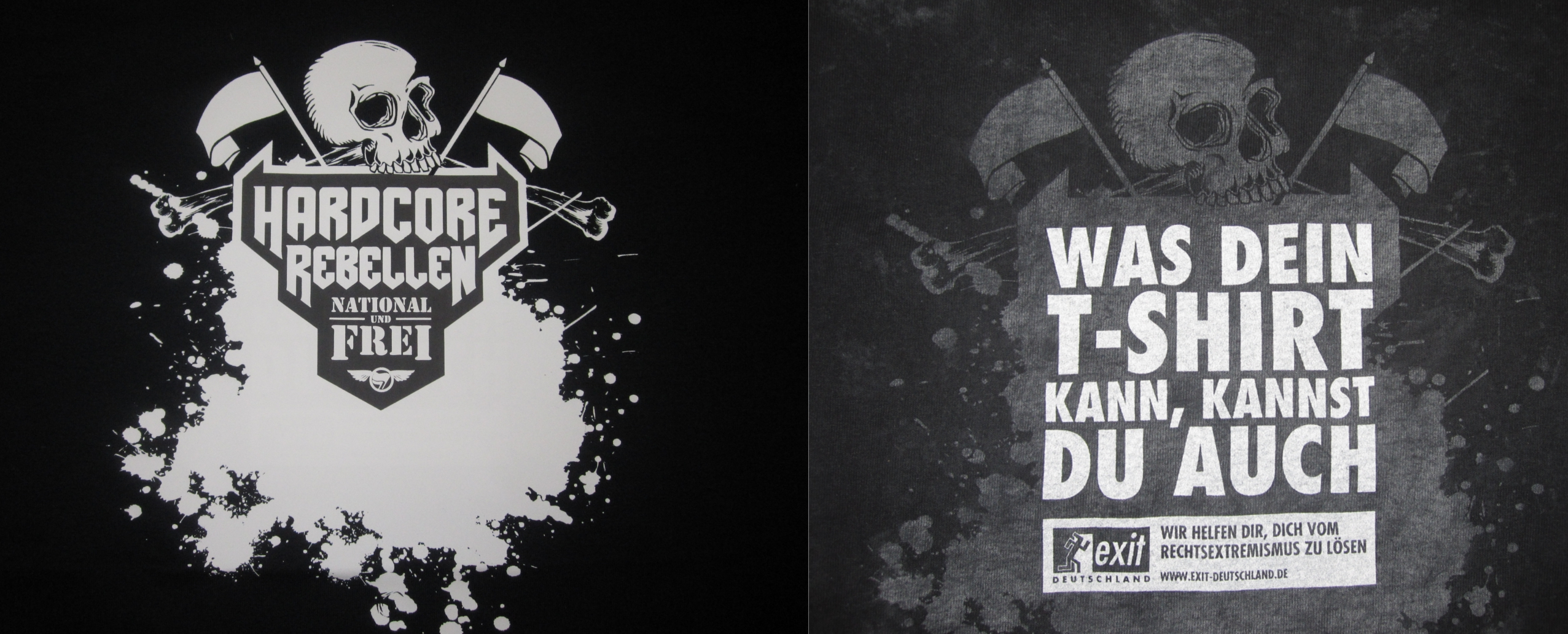 Trojan T-Shirt by EXIT-Deutschland